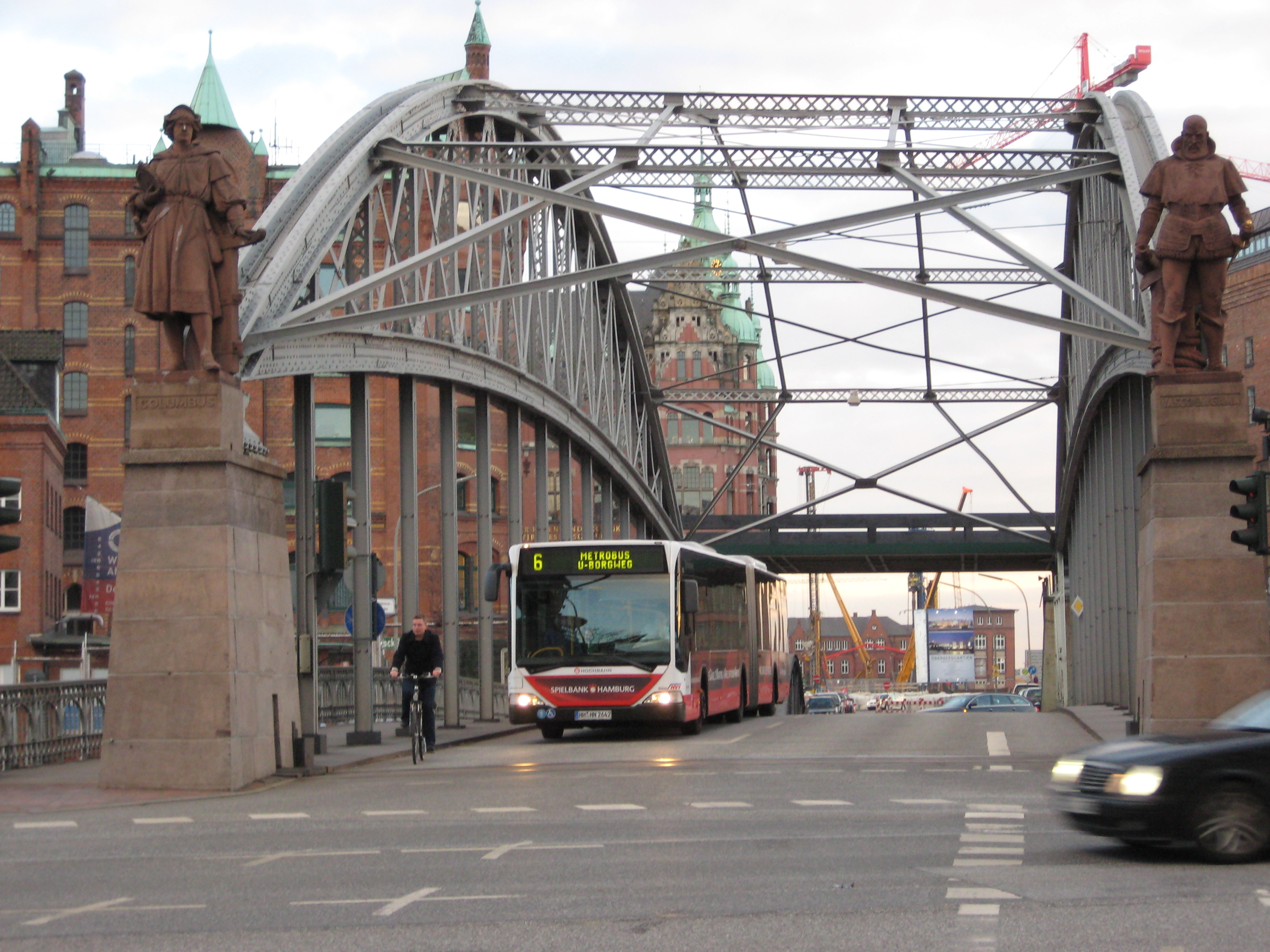 Hamburg, Kornhausbrücke This is a photograph of an architectural monument.